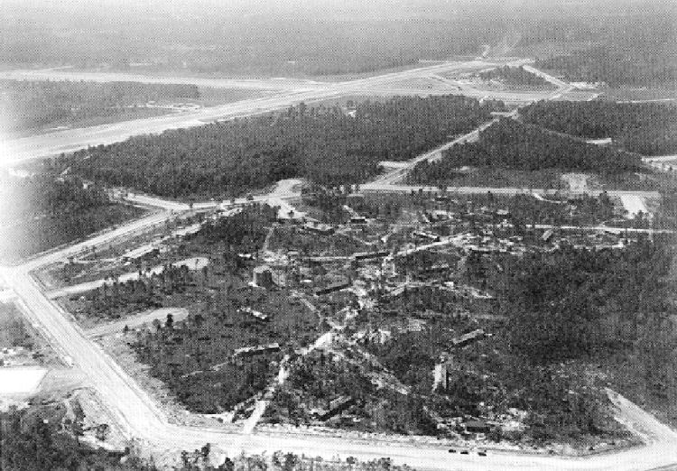 Aerial photograph of Myrtle Beach Army Airfield - 1943. Oblique looking to Southwest.